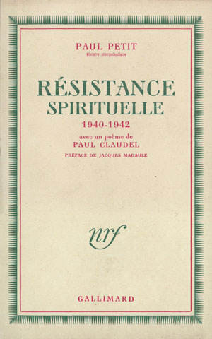 Cover page of Résistance spirituelle, book of Paul Petit, writer (1893-1944), publishet in 1947